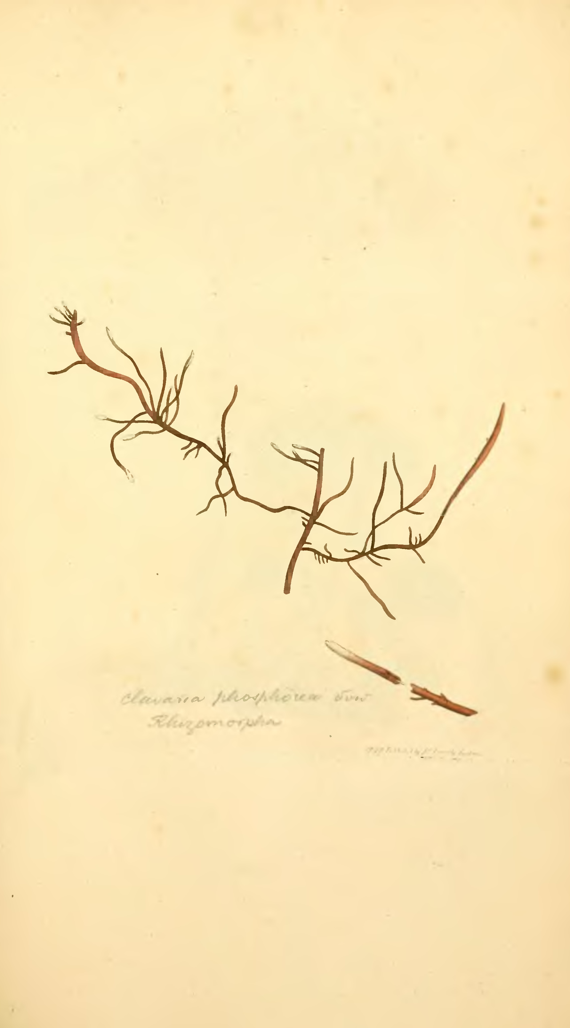 This is plate 100 from James Sowerby's Coloured Figures of English Fungi or Mushrooms. See below for more details.